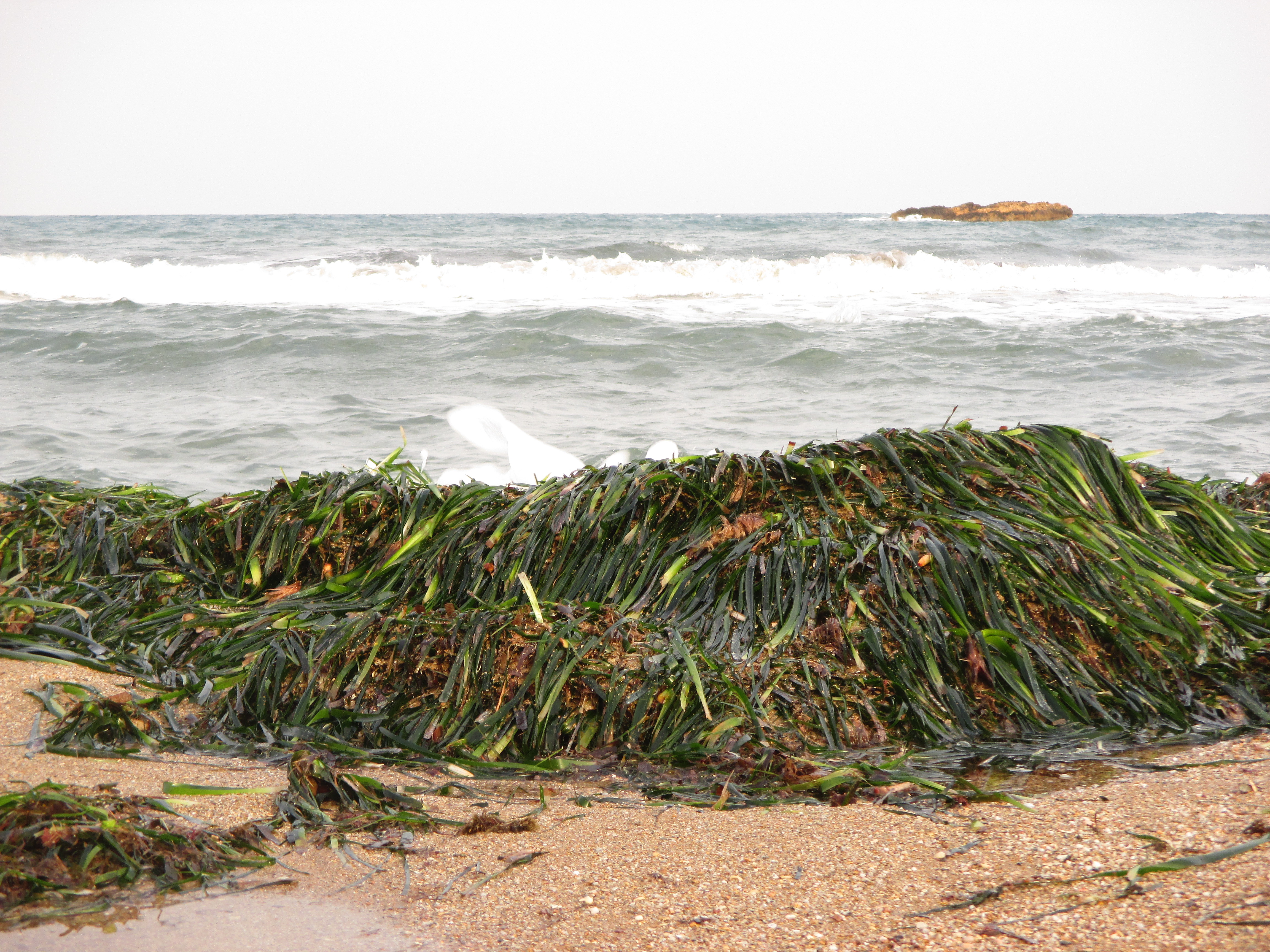 La Higuerica (small fig tree) Cove, in the background the Bride and Groom Bed (or Cradle) islet. This is a photography of a Special Area of Conservation in Spain with the ID: ES6200010. Natura2000 entry, EEA entry